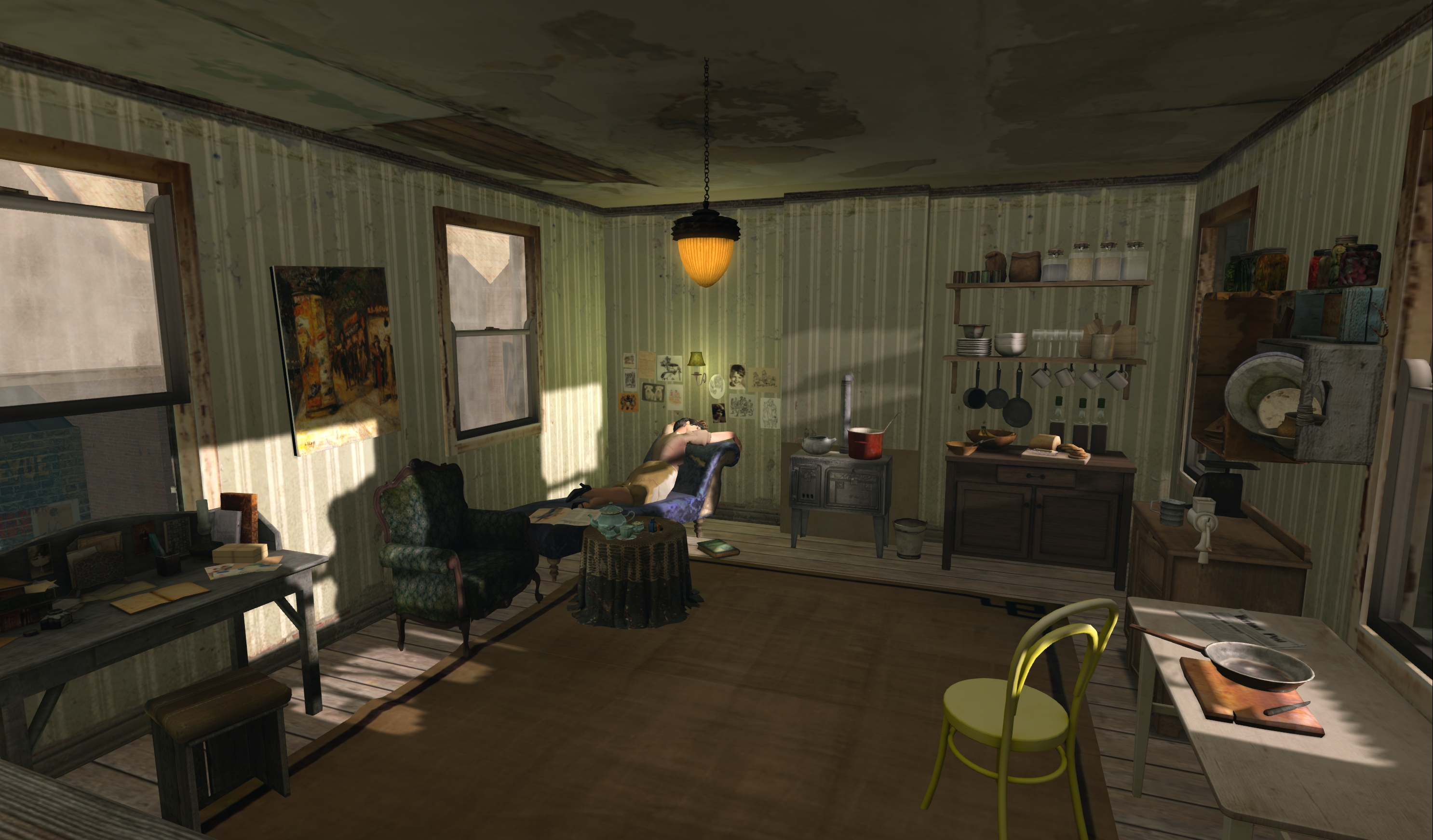 A Virtual Reality recreation of a working class apartment in Berlin as it might have looked in 1929. It is part of The 1920s Berlin Project, an educational roleplaying community in the online virtual world of Second Life. This sim (short for simulation) allows people from all over the world to explore Pre-Nazi era Berlin. The project was build and is managed by Jo Yardley.